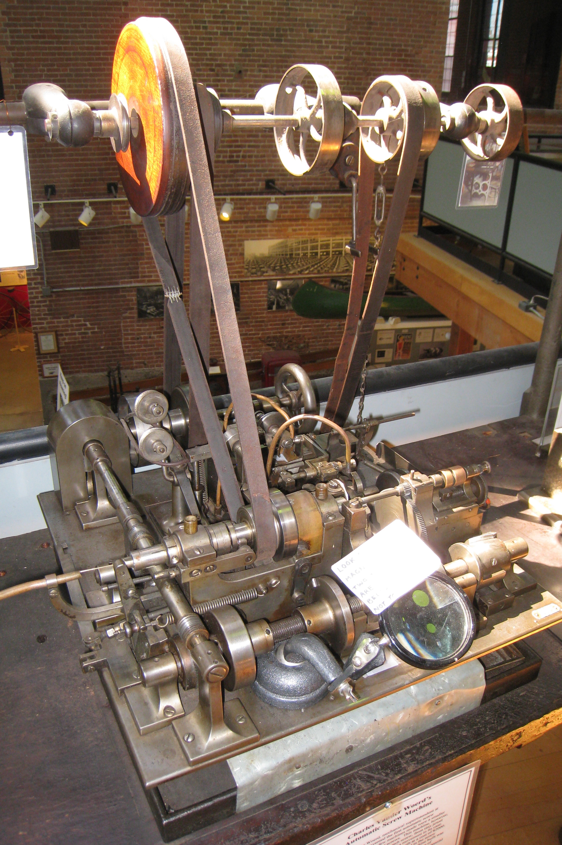 Charles Vander Woerd's Automatic Screw-making Machine, circa 1871-1876, invented for the American Watch Company, Waltham, Massachusetts, USA. This machine could make any size watch screw; one operator could attend six of these machines to give a combined output of 50-60,000 screws per day.